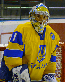 Goalie Kostyantyn Symchuk #1 of the Ukraine during the friendly game against the Poland on April 9, 2010 at the Terminal Arena in Brovary, Ukraine. Ukraine won the game 5:1.